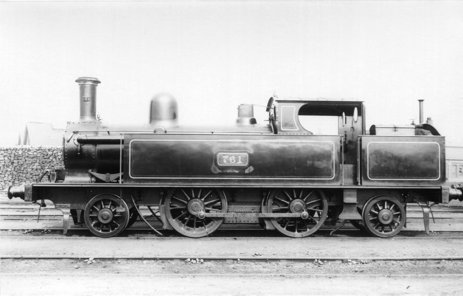 Photograph of LNWR engine No. 761, 4ft 6in Tank